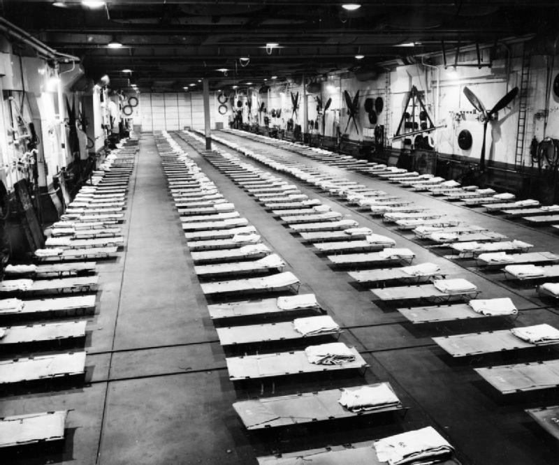 The hangar of the Royal Navy aircraft carrier HMS Colossus (R15) rigged as a dormitory for the British and Australian prisoners of war that were to be picked up at Jinsen, Korea.